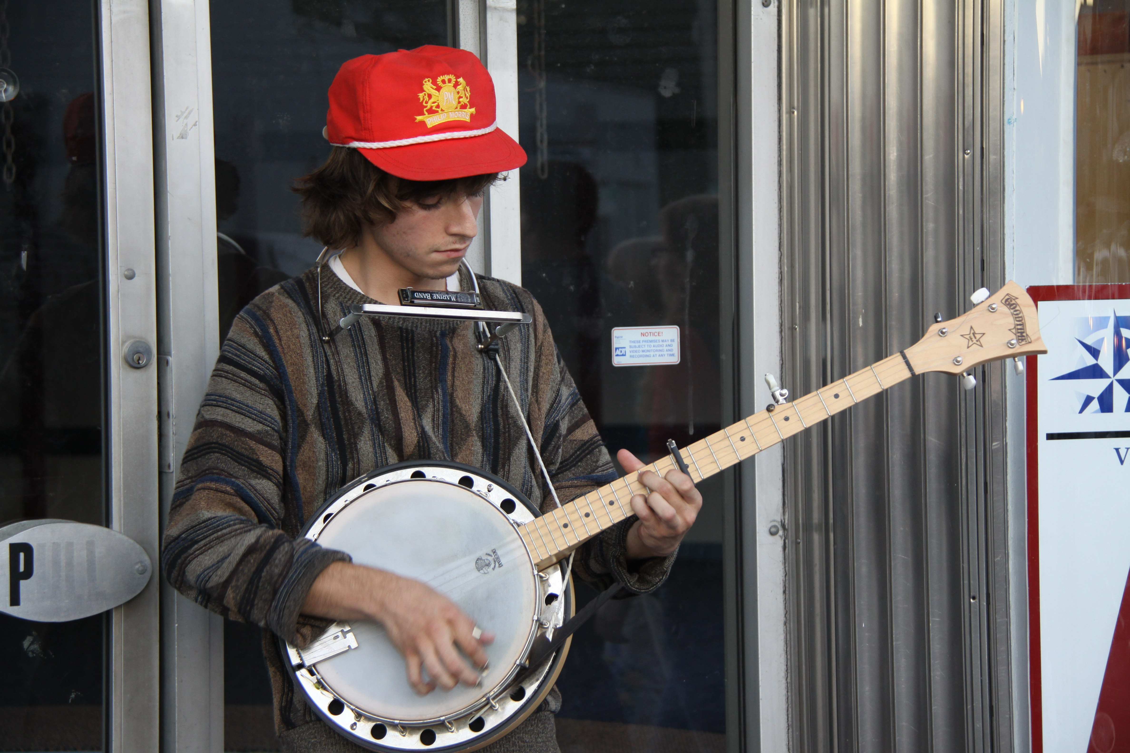 Michael Hirsch, musician for hire.